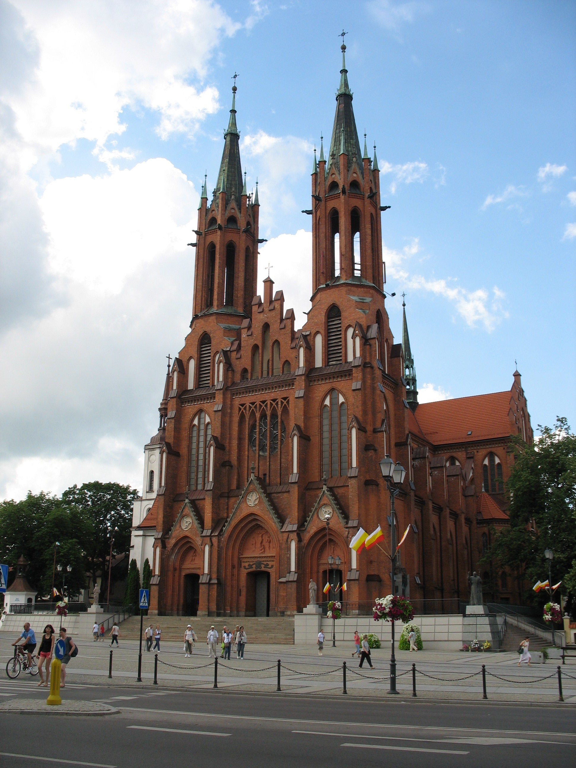 Overall view of the minor basilica in Białystok, Poland